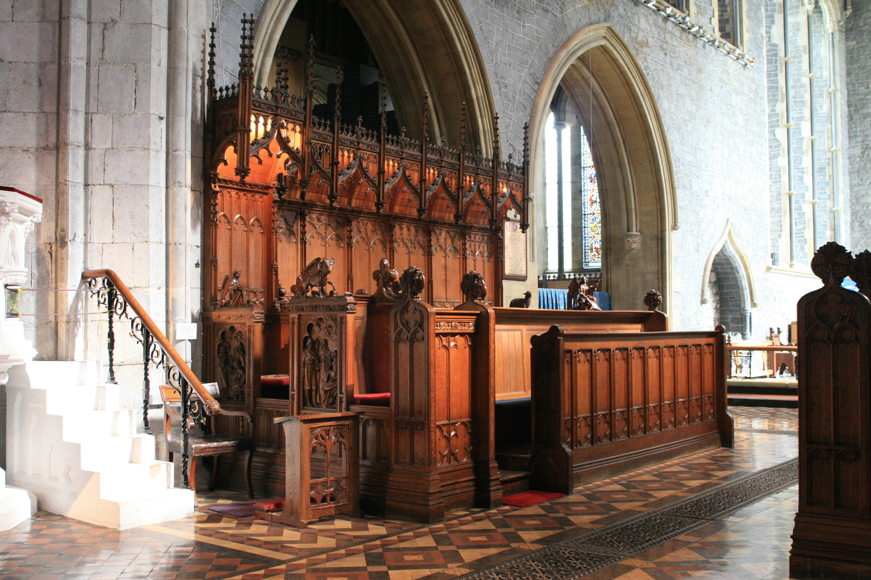 Kilkenny, Co. Kilkenny, Ireland Stalls within the choir of St. Canice's Cathedral. These stalls were designed by the local architect Richard Langrishe and carved at Brugers from Danubian oak. They were erected in 1904 in the cathedral. See: Peter Galloway: The Cathedrals of Ireland, p. 132.